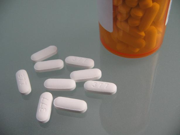 This is a photograph I took of a prescription bottle and some generic Tramadol. This is a (legal) prescription for generic Tramadol 50mg, manufactured by Caraco.